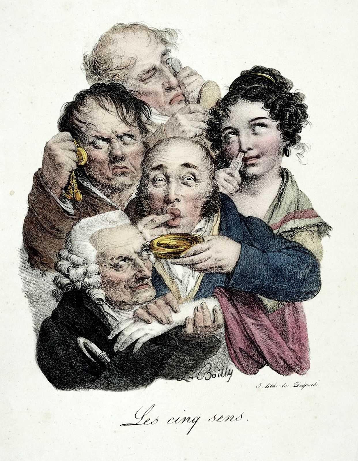 Five people, each exercising one of the five senses. Coloured lithograph after L.-L. Boilly. Iconographic Collections Keywords: Louis Boilly; Louis Leopold Boilly